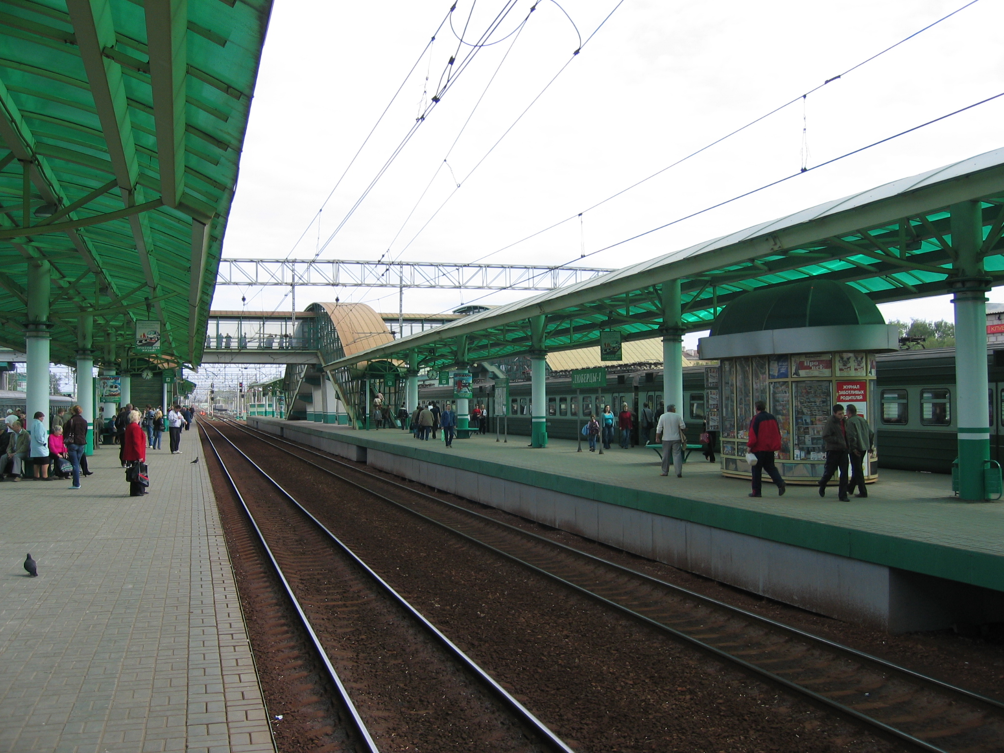 Lyubertsy 1 train station, Moscow Oblast, Russia